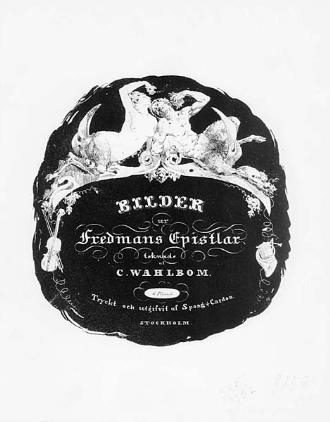 Title page with vignette to "Pictures from Fredmans Epistles"